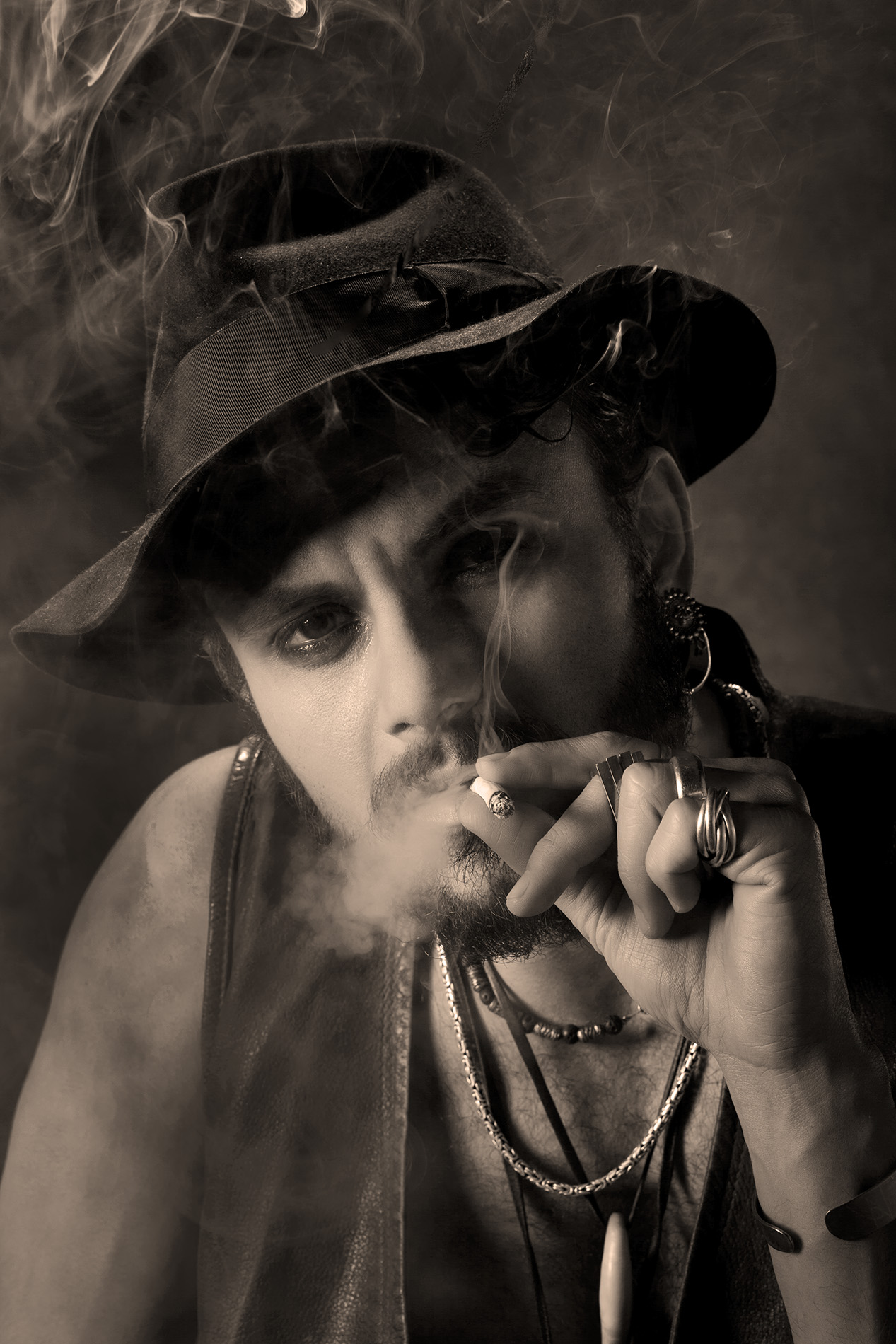 Gypsy